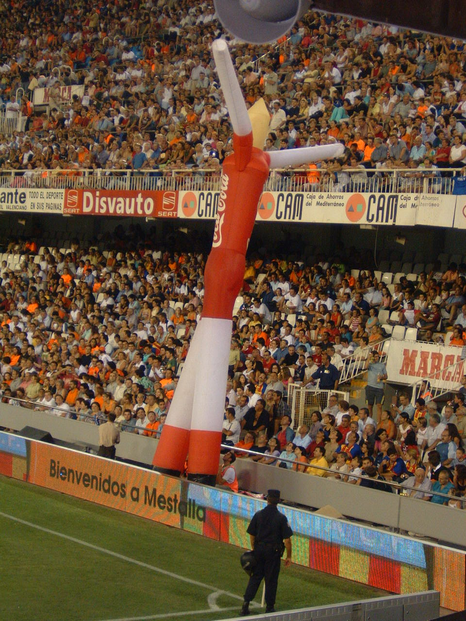 Personal picture of Mestalla stadium in Valencia in Spain.